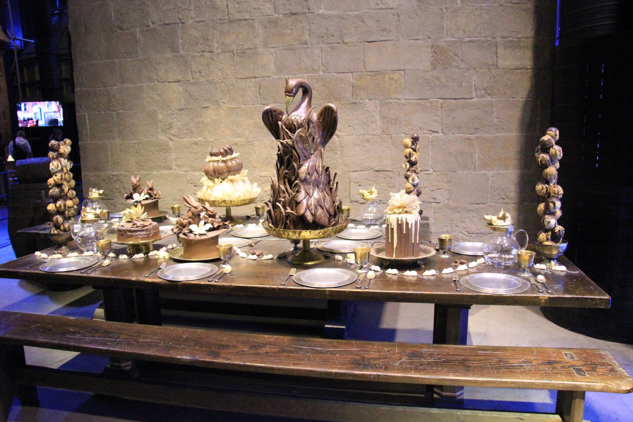 Warner Bros. Studio Tour London: The Making of Harry Potter.